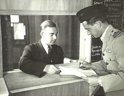 Laverton, Vic. In the Operations Room, Flight Lieutenant Frank Headlam (right); airman's name, unknown. RAAF ground training.